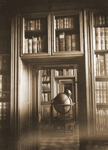 Interior of the Zamoyski Foundation Library in Warsaw. Burned down in September, 1939 as a result of severe aerial bombardment by the Germans (incendiary bombing). The surviving collection was later deliberately burned by the Germans in September 1944.